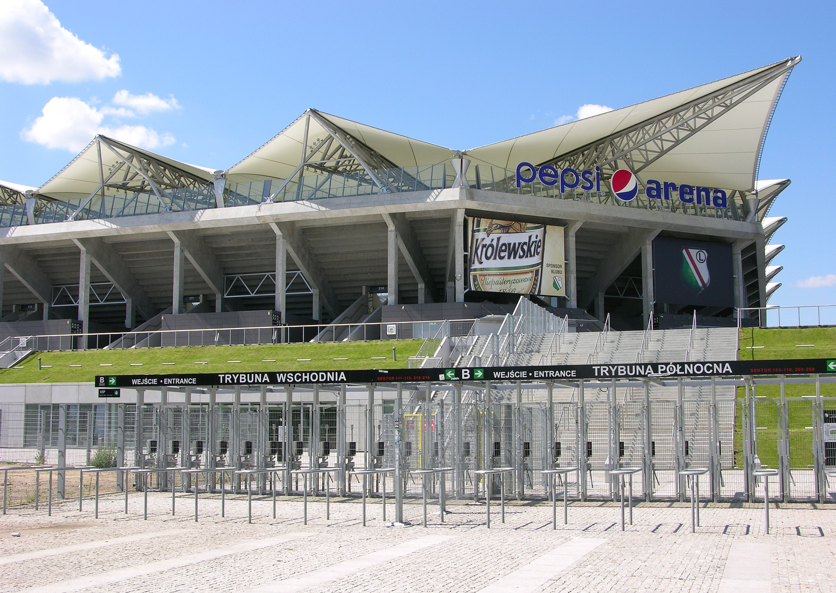 Wojska Polskiego Stadium in Warsaw